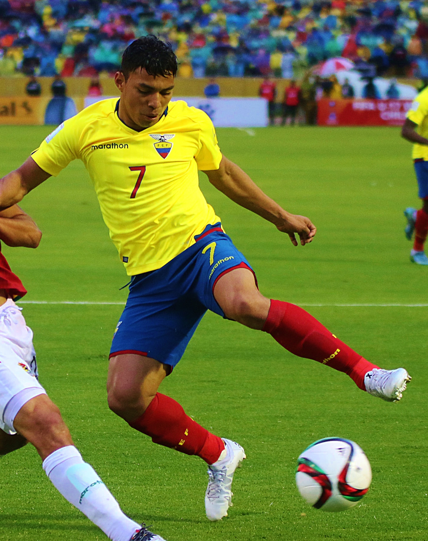 Jefferson Montero